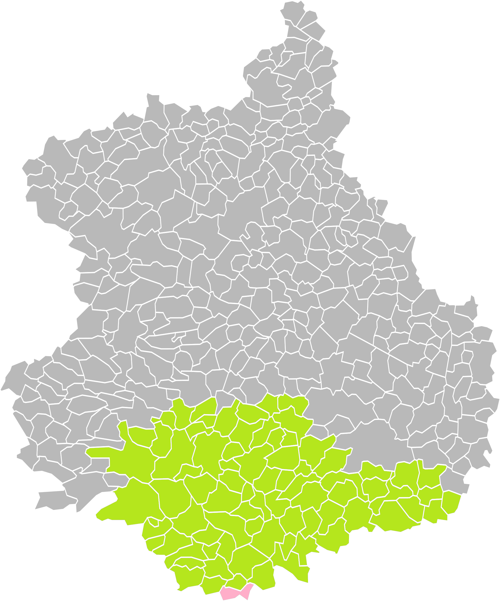 Location of the commune of Charray in the arrondissement of Châteaudun (Eure-et-Loir)